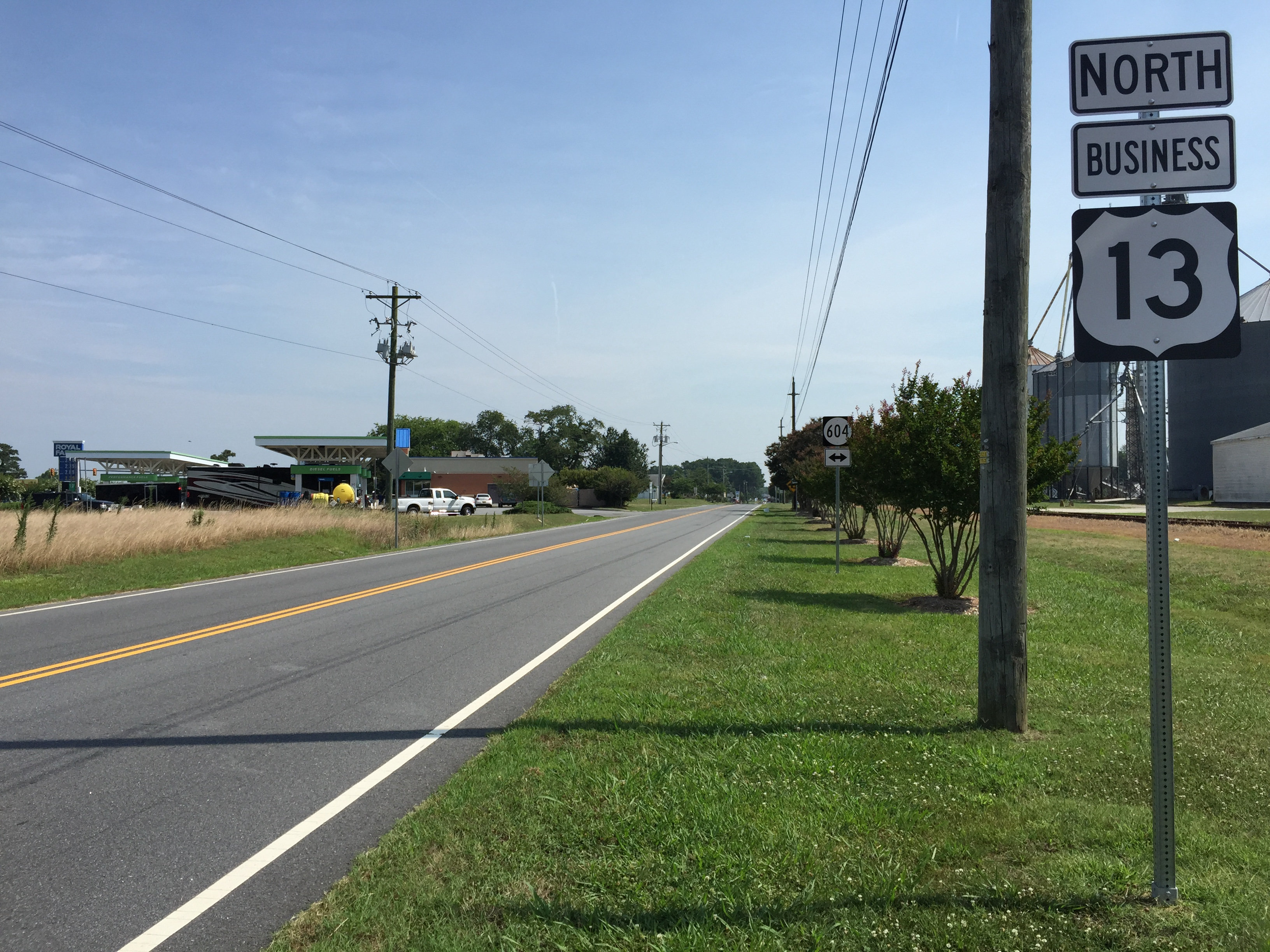 View north along U.S. Route 13 Business (Main Street) at U.S. Route 13 (Lankford Highway) in Exmore, Northampton County, Virginia